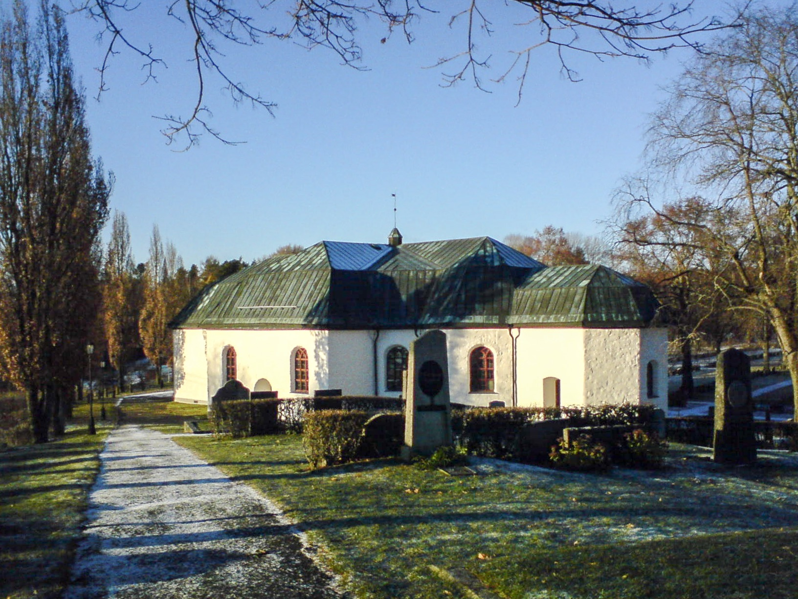 The parish church of Nedre Ullerud, Värmland, Sweden from the hill with the belfry at the south east of the church by the river Klarälven.